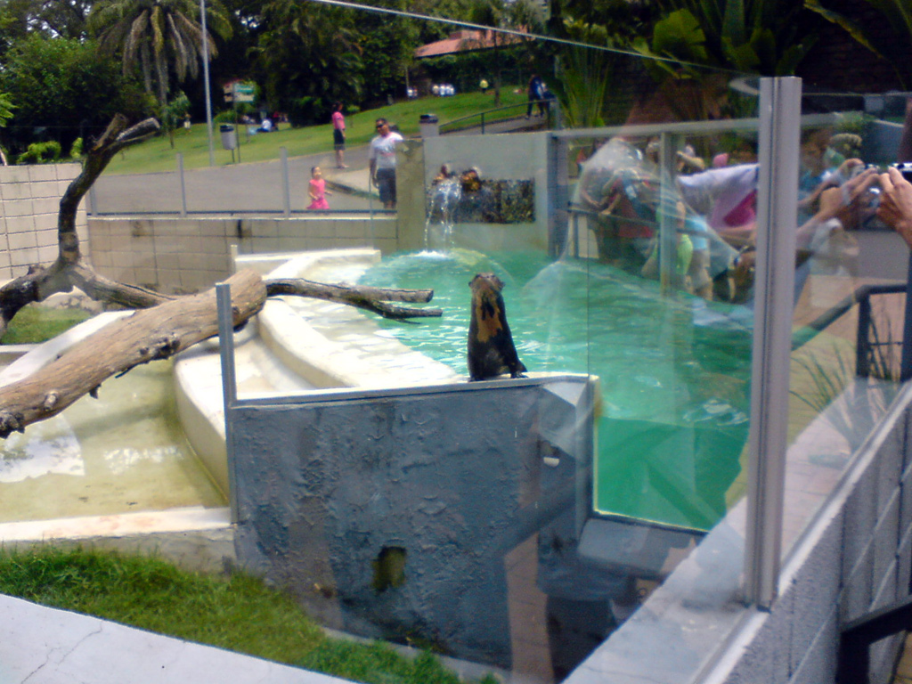 Ariranha - Parque Zoológigo Municipal Quinzinho de Barros at Sorocaba - SP - Brazil